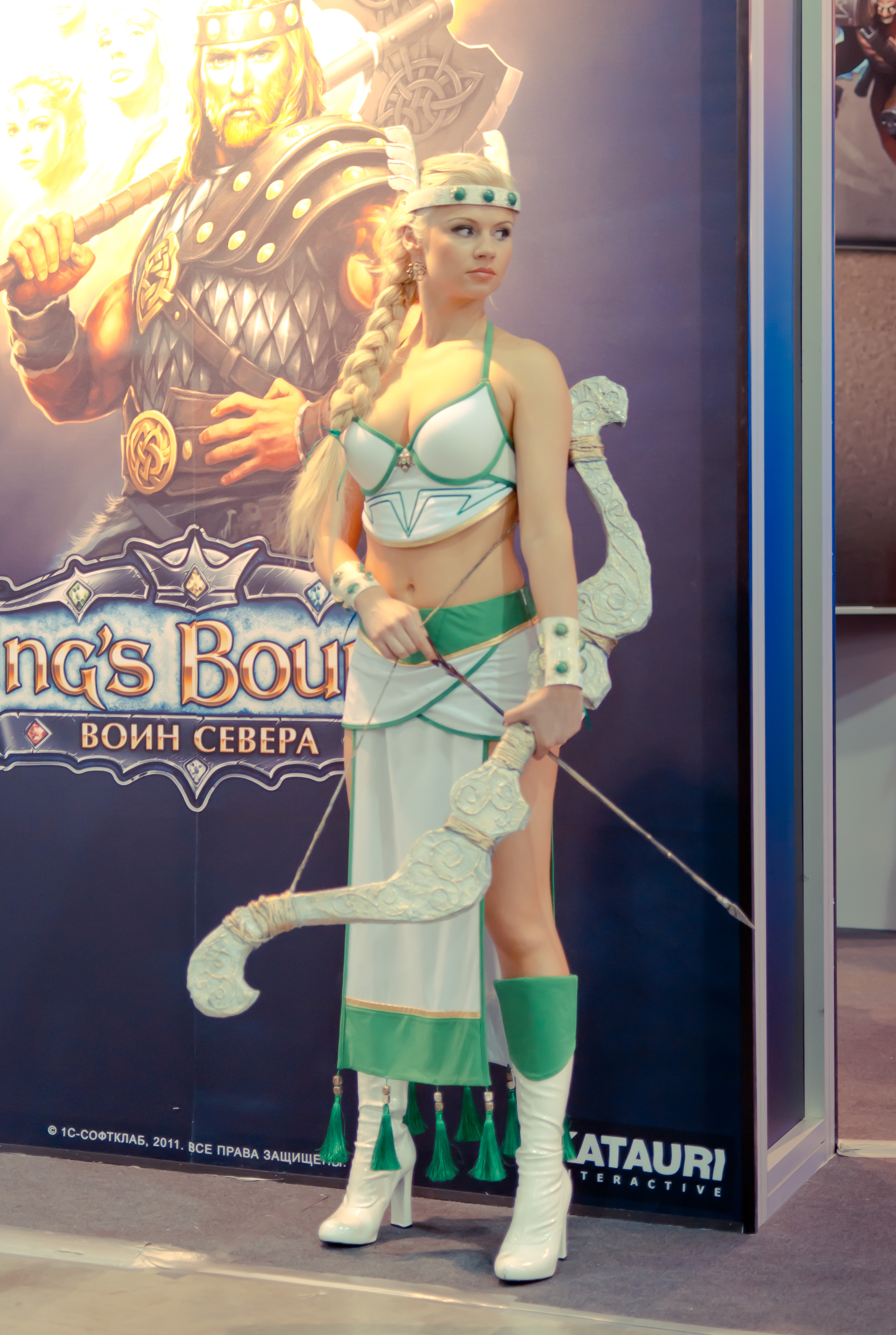 Kings Bounty girl at Igromir 2011